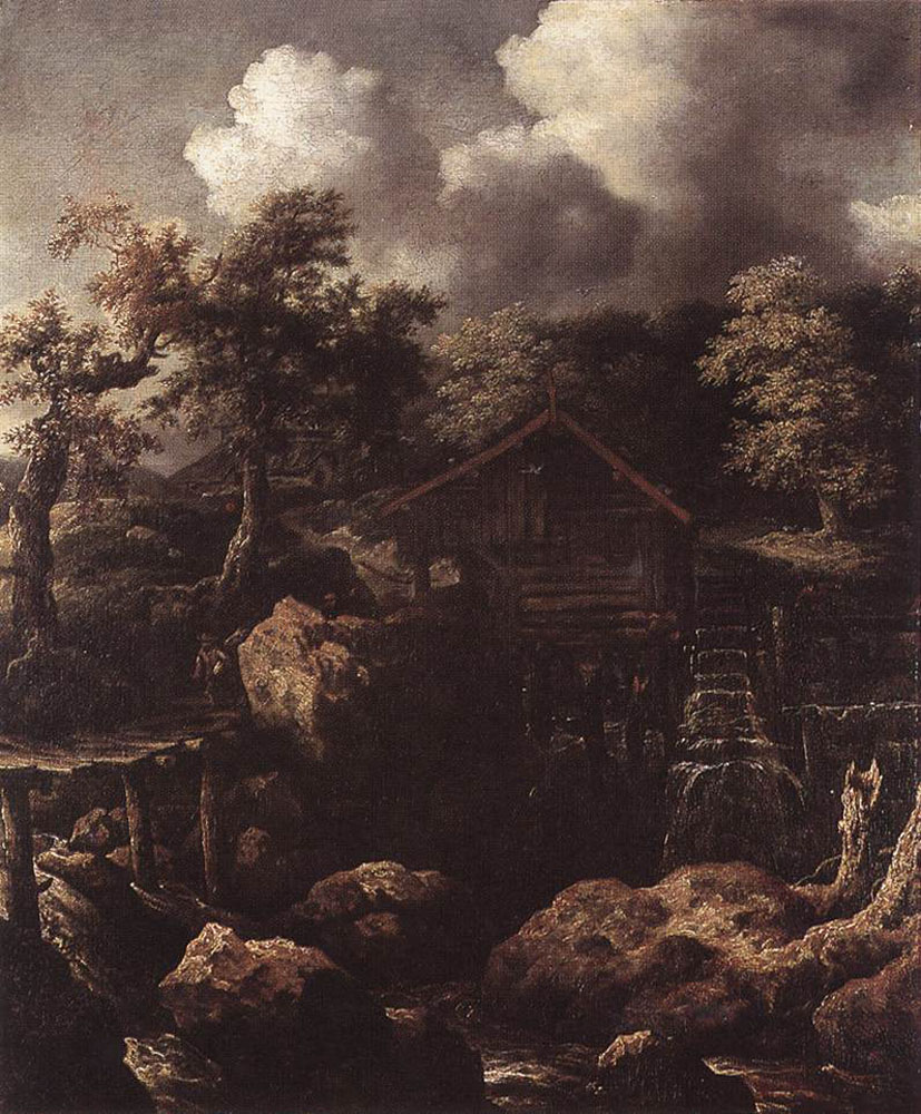 Forest Scene with Water-Mill